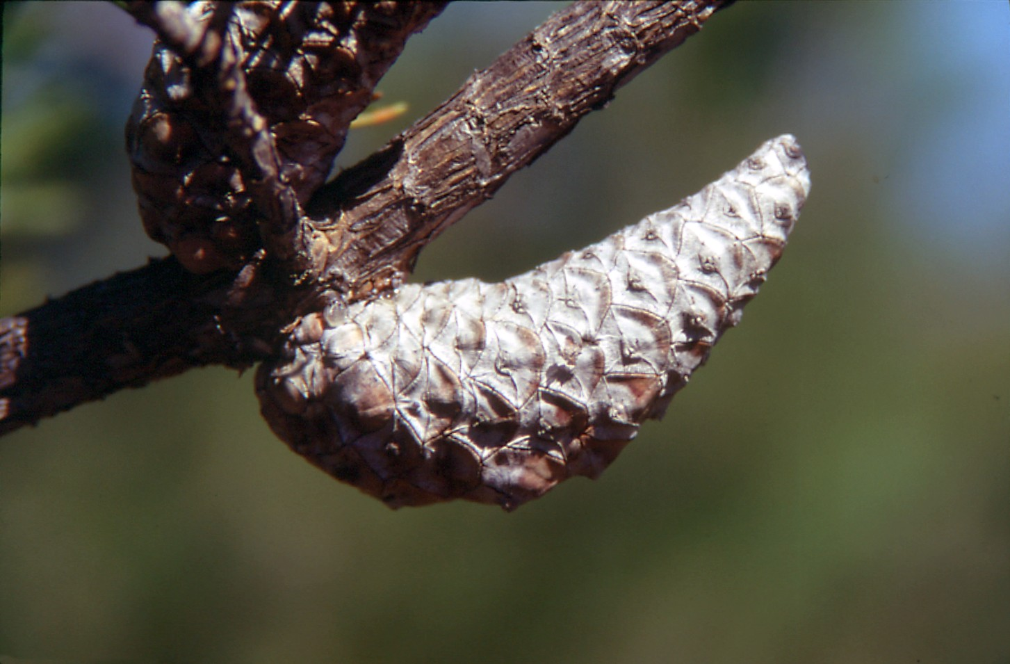 Jack Pine. Pine cone.